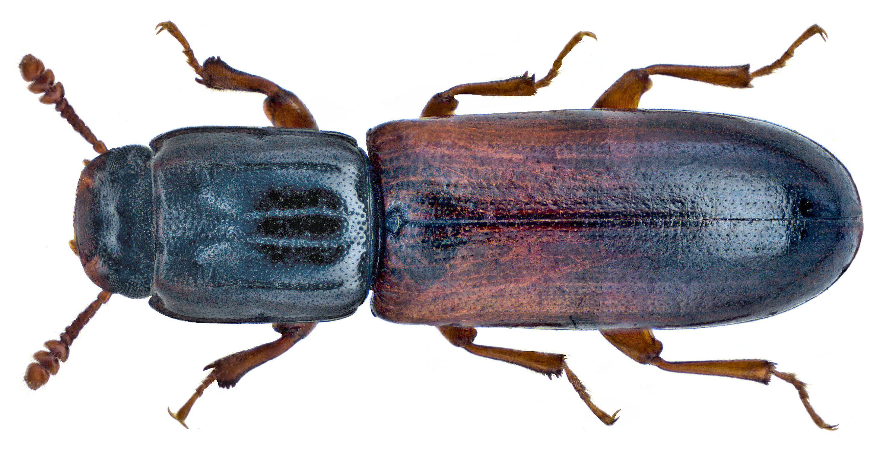 Family: Colydiidae Size: 4,6 mm (3,5-4,6 mm) Origin: mediterranean landscape Ecology: lives on the Aleppo pine Location: France, Corsica, Col de Sorba, 1300 m leg.det. U.Schmidt, 11.VI.1973 Photo: U.Schmidt, 2014